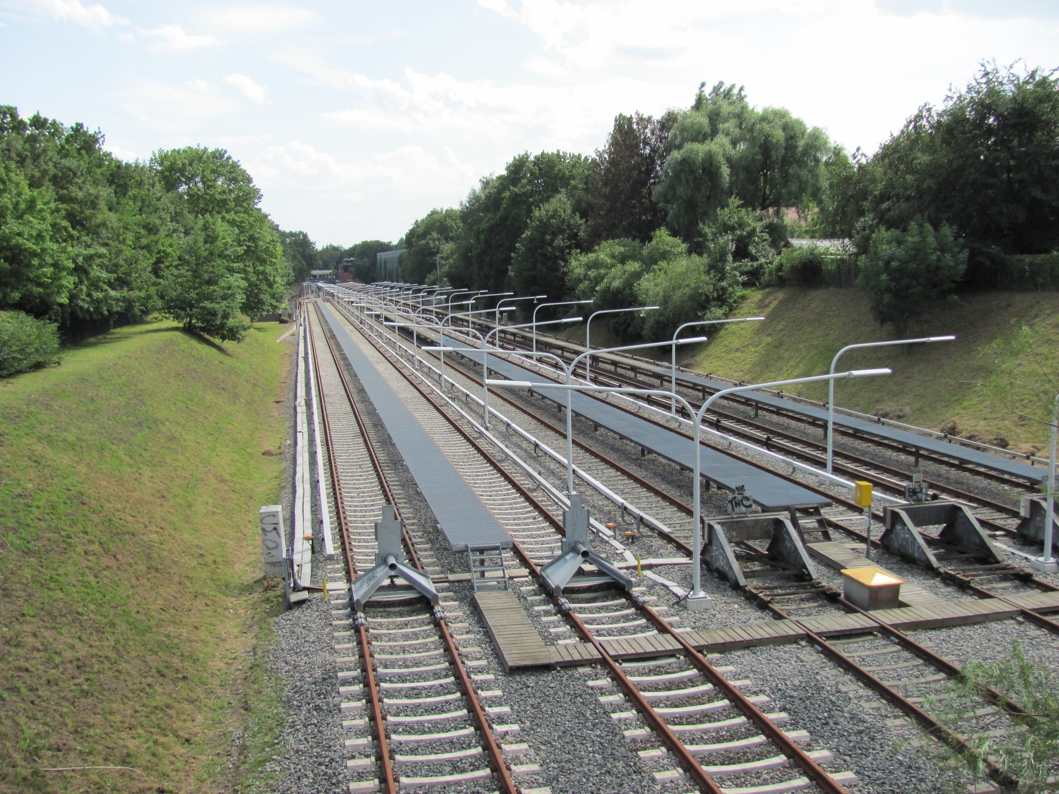 U-Bahn station Hagenbecks Tierpark in Hamburg, Germany